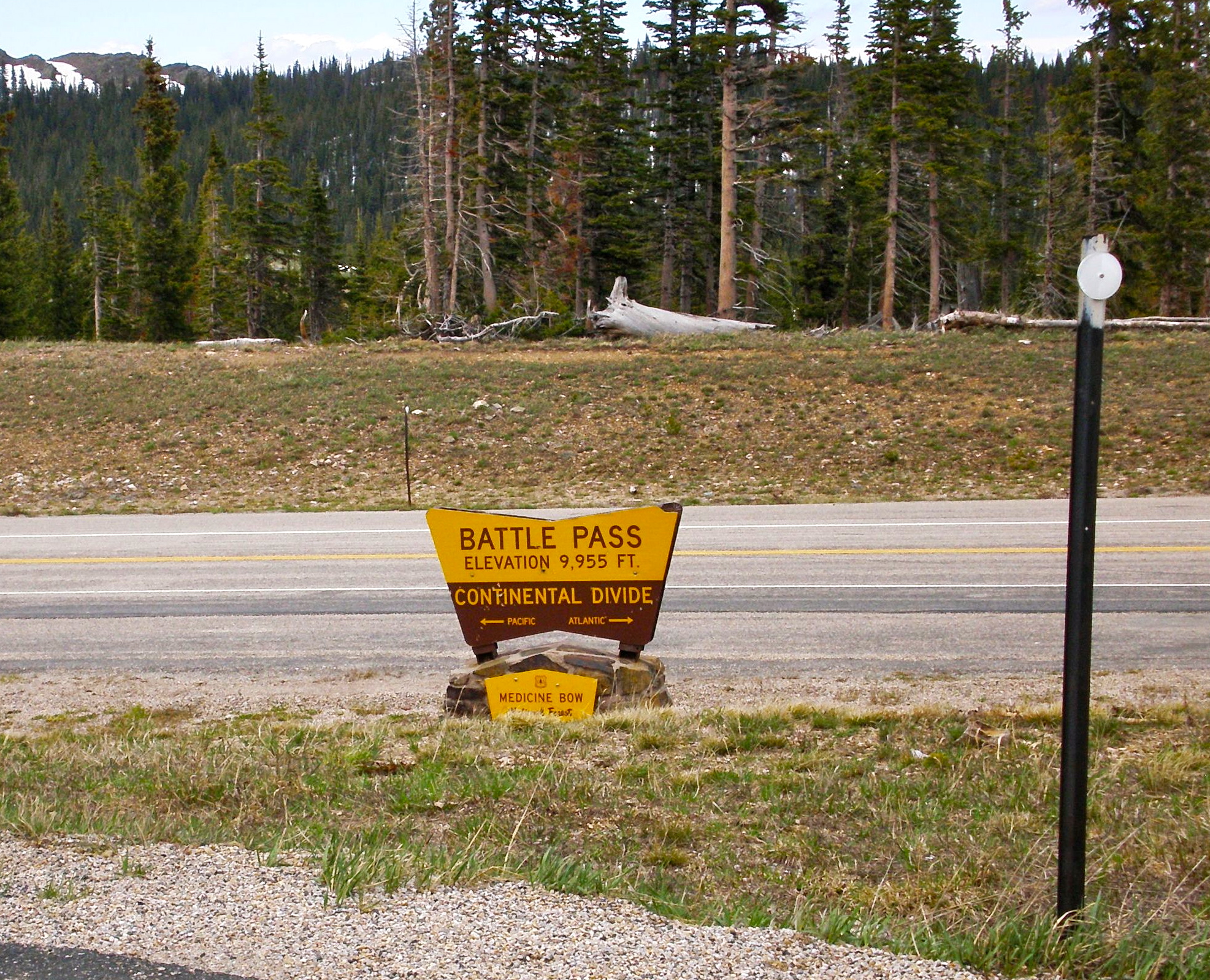 The senic by-way crosses the Continental Divide